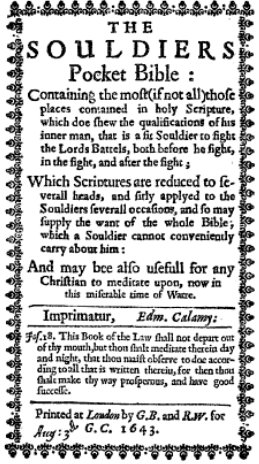 Cover page 1643 Souldiers Pocker Bible book